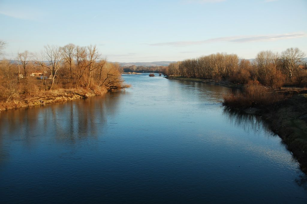 Velika Morava near Varvarin